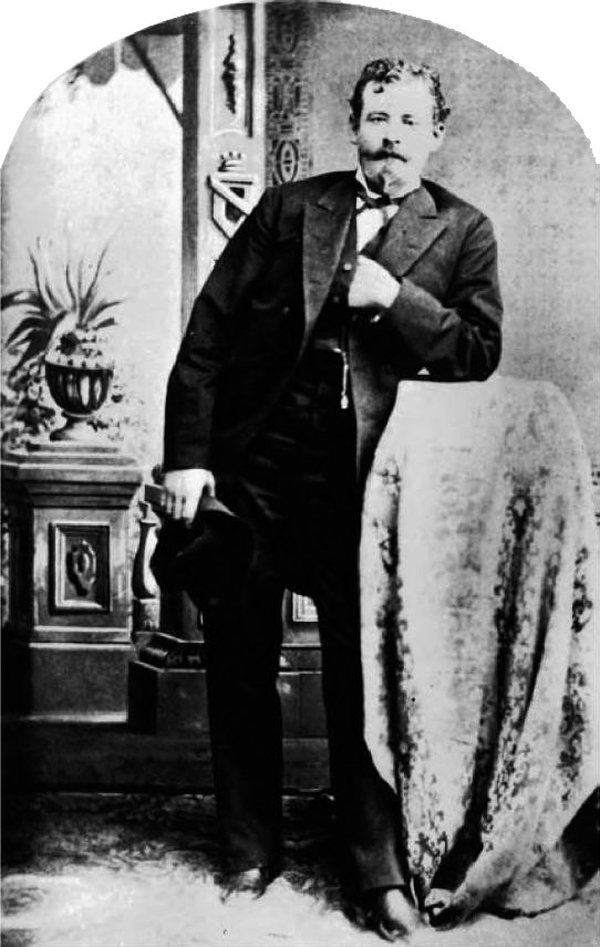 Historical photo of Ike Clanton in 1881 by photographer Camillus S. Fly, Tombstone, Arizona Territory.